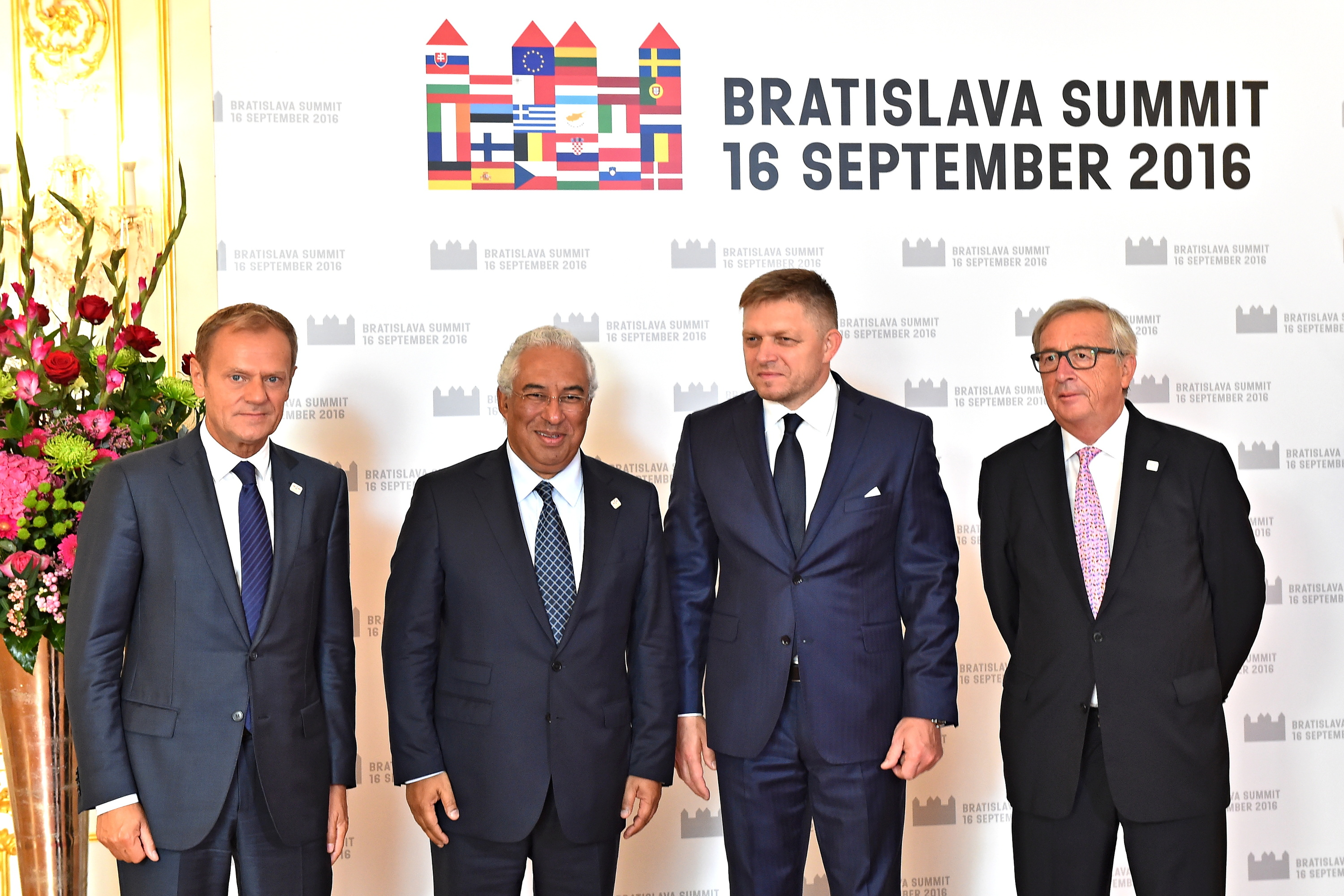 HANDSHAKE - BRATISLAVA SUMMIT 16. SEPTEMBER 2016. Donald Tusk, European Council, President - António Costa, Portugal, Prime Minister - Róbert Fico, Slovakia, Prime Minister- Jean-Claude Juncker, European Commission, President Photo Rastislav Polak